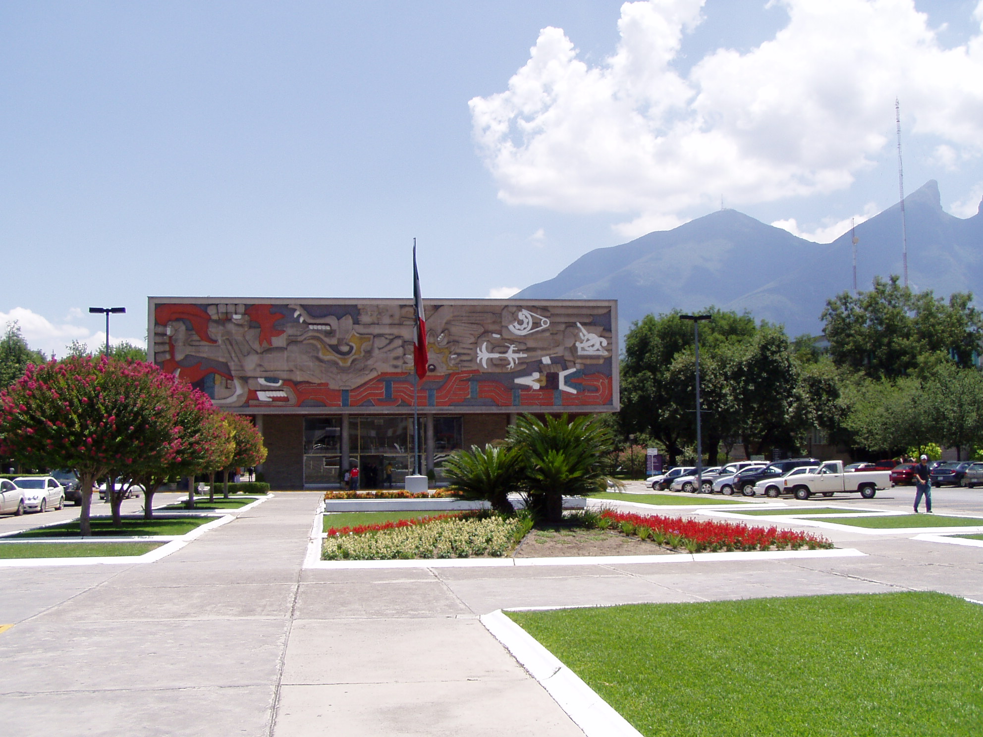 The rectorate building of the Monterrey Institute of Technology and Higher Education in Monterrey, Nuevo León, México.